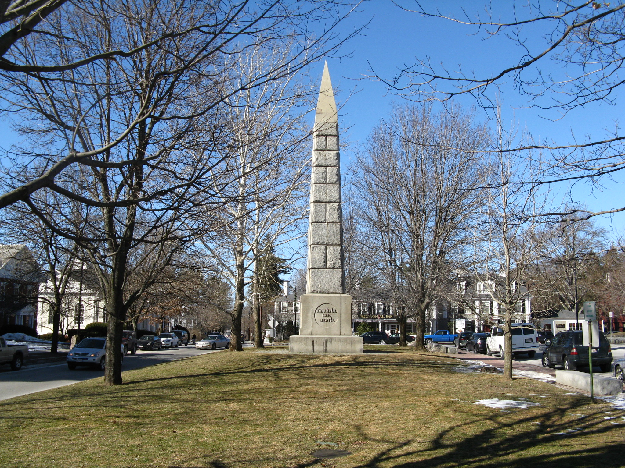 Civil War Memorial, Monument Square, Concord Massachusetts - Colonial Inn in the background